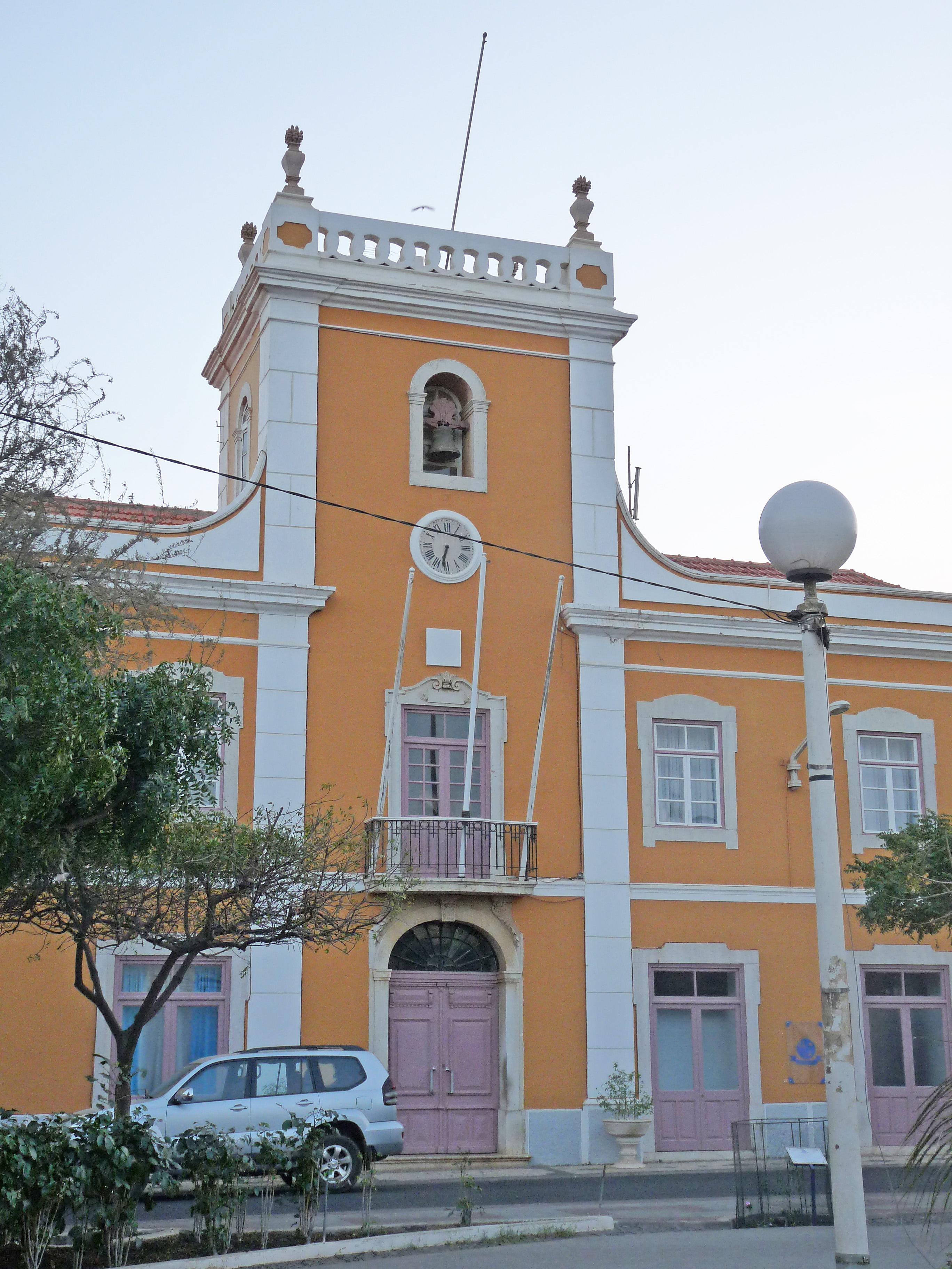 Praia, Cape Verde: City Hall